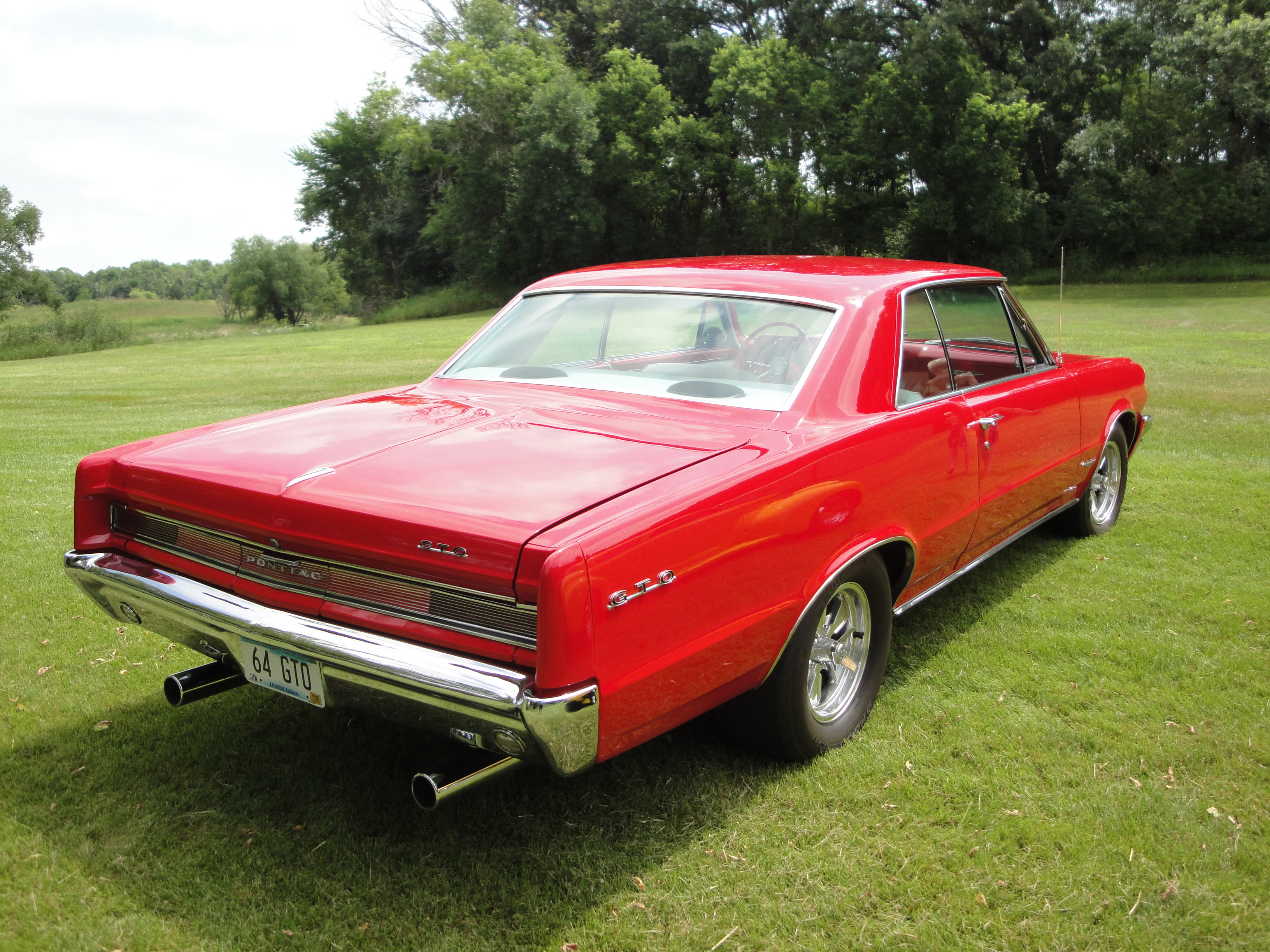 Willmar Car Club members Paul & Carol Aasen host the 5th Annual Classic Cruise In